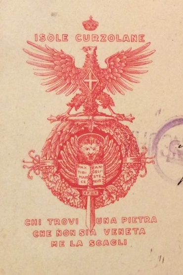 Coat of arms of the Korčulan Archipelago on a 1920 Italian postcard. The Archipelago belonged to Itay from 1918 to 1921 after the end of World War I, and Isole Curzolane is the Italian exonym of the place.